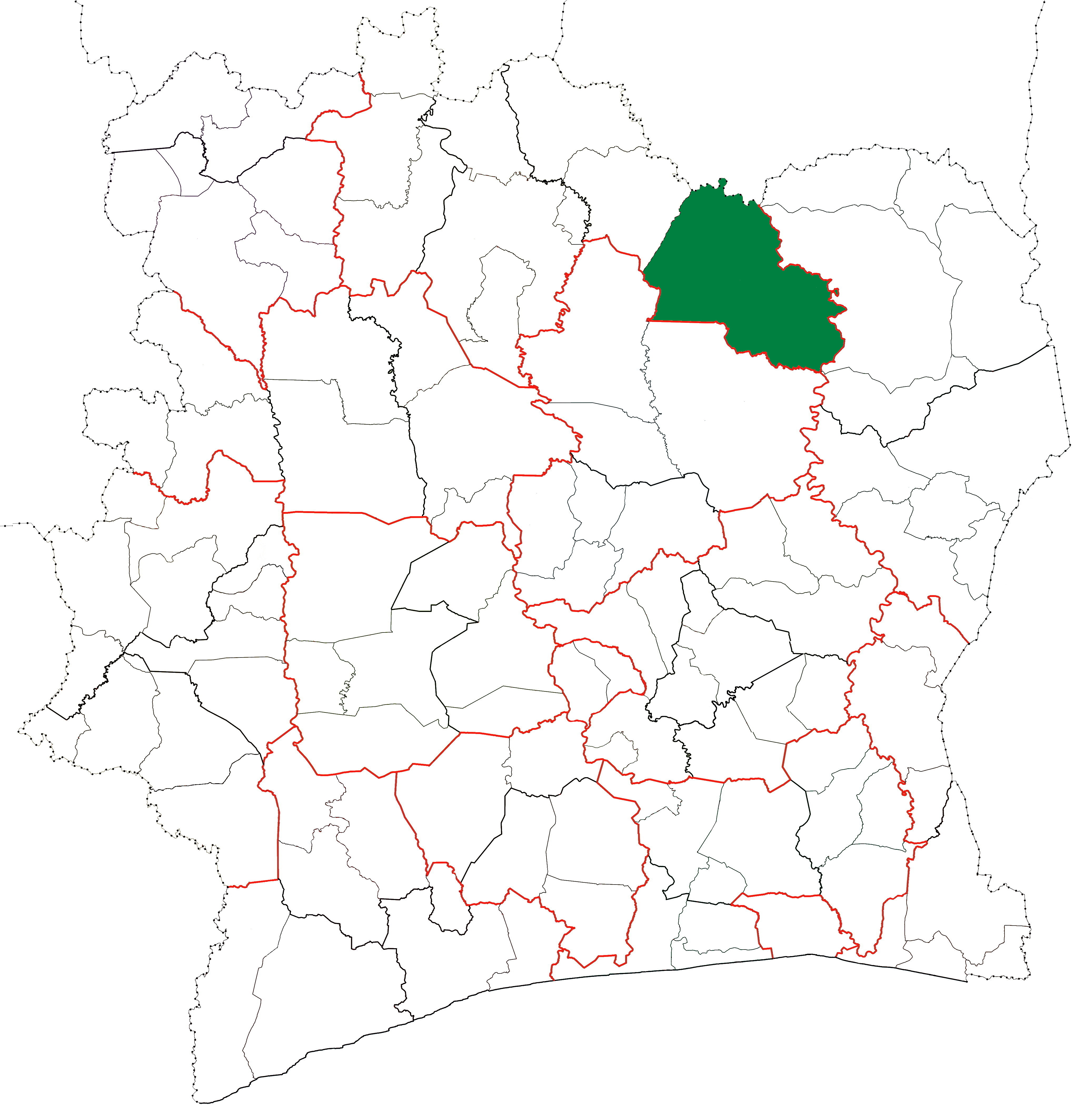 Locator map for Kong Department in Côte d'Ivoire.